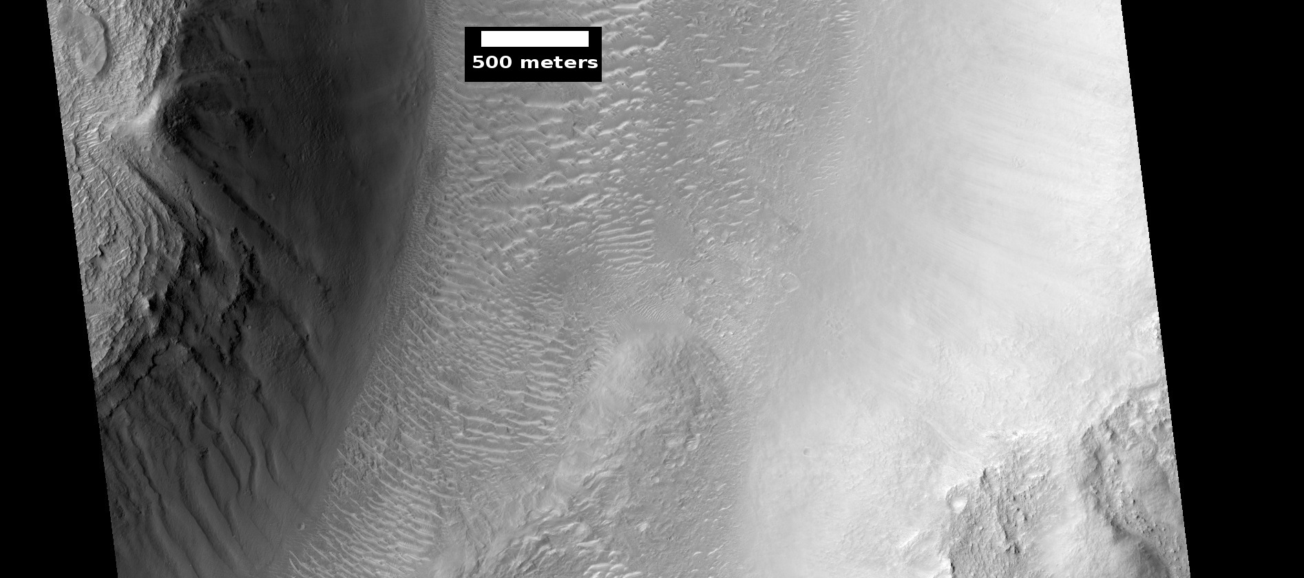 Details of wall of trough, as seen by hirise, under HiWish program. Location is 6.7 N and 99.4 E, Amenthes Fossae.